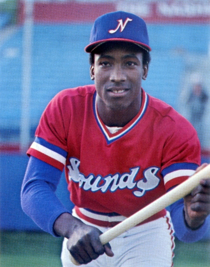 Outfielder Eddie Milner of the 1979 Nashville Sounds Minor League Baseball team of the Southern League